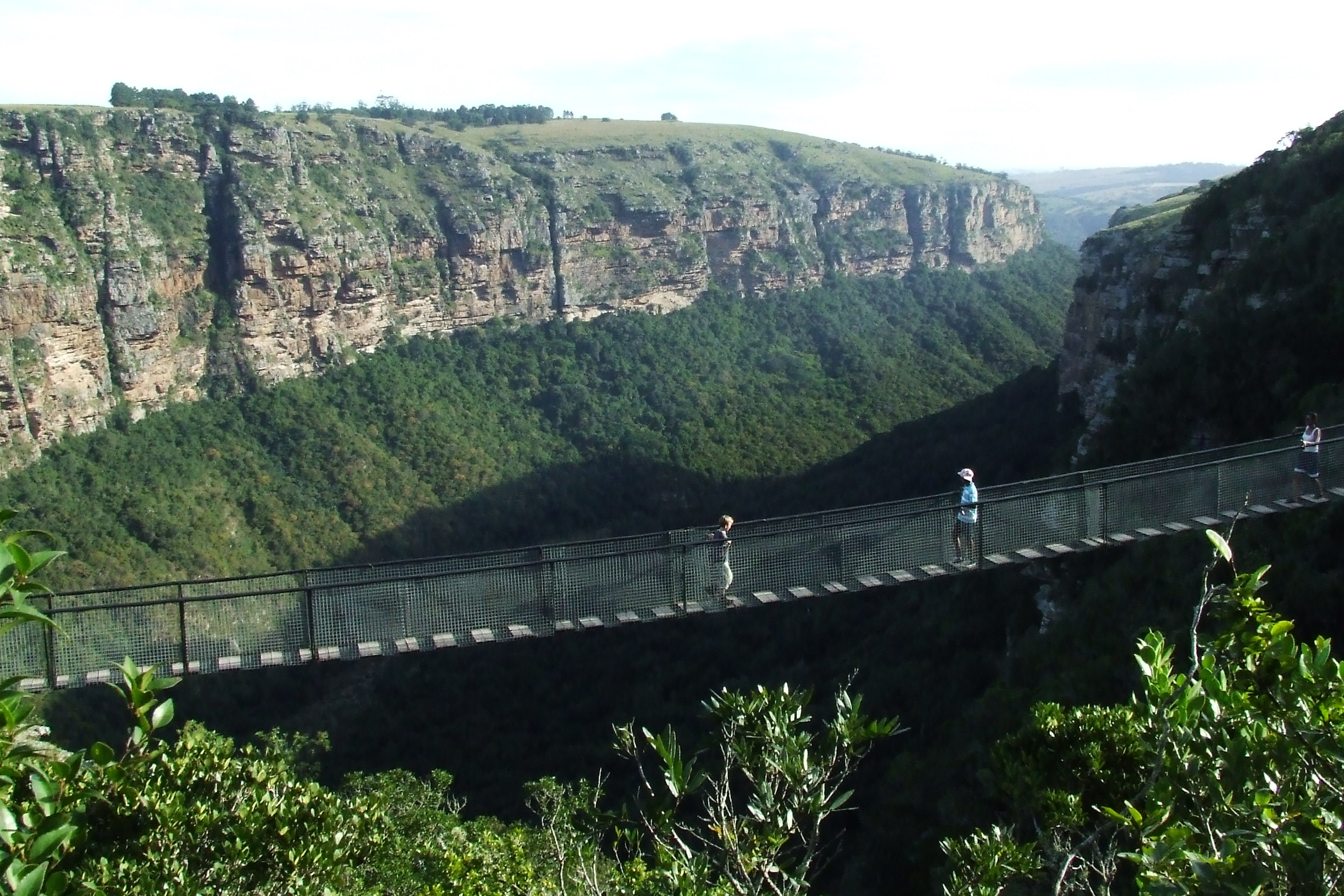 Eagles Nest @ Oribi Gorge on Easter Sunday